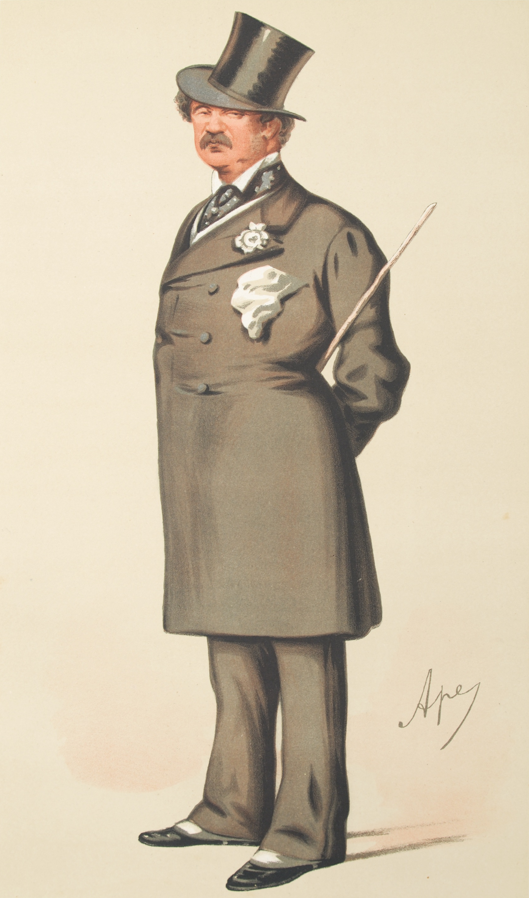 Men or Women of the Day No.105: Caricature of Maj-Gen Lord AH Paget MP.